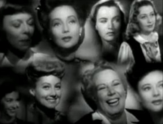 Screenshot of the main cast members (clockwise from top left : Margaret Sullavan, Ann Sothern, Ella Raines, Joan Blondell, Frances Gifford, Connie Gilchrist, Diana Lewis and Marsha Hunt from the trailer for the film Cry 'Havoc'